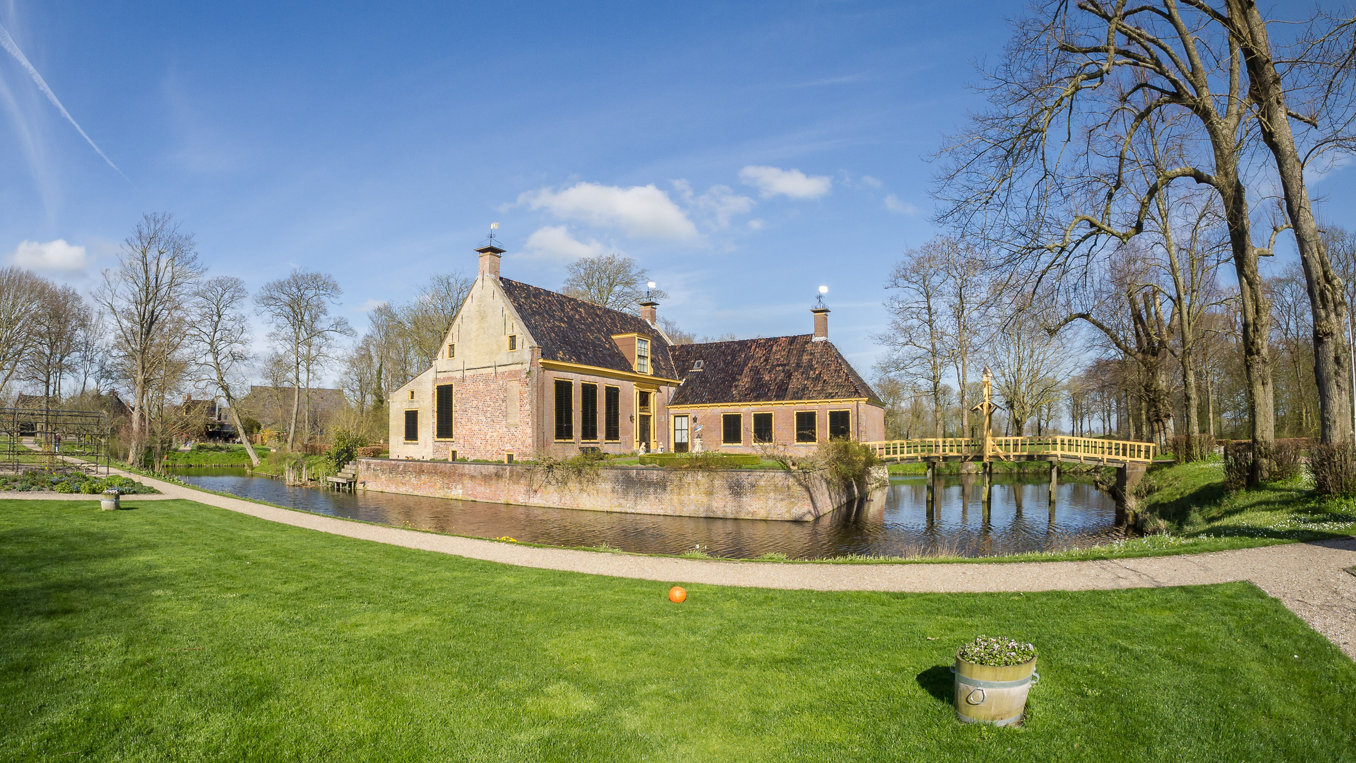 Dekemastate door de visooglens